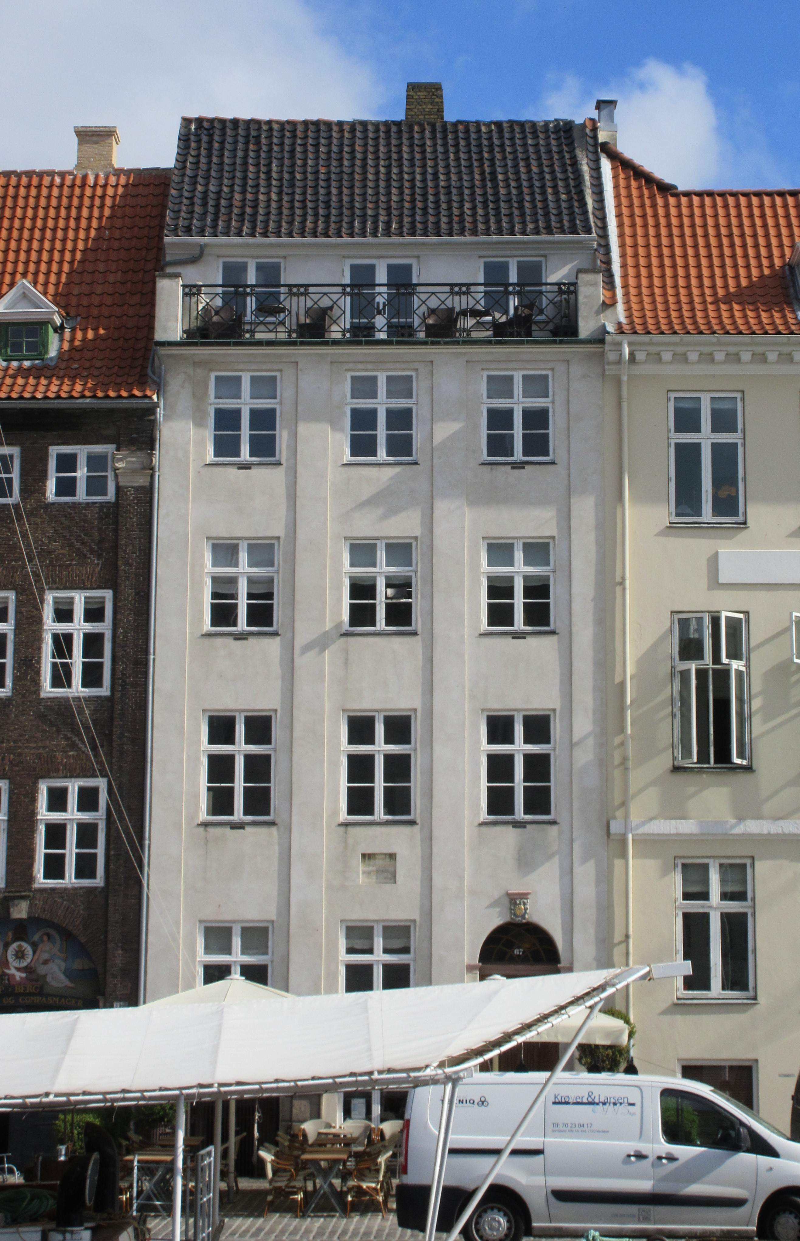 Nyhavn 67 in Copenhagen, Denmark